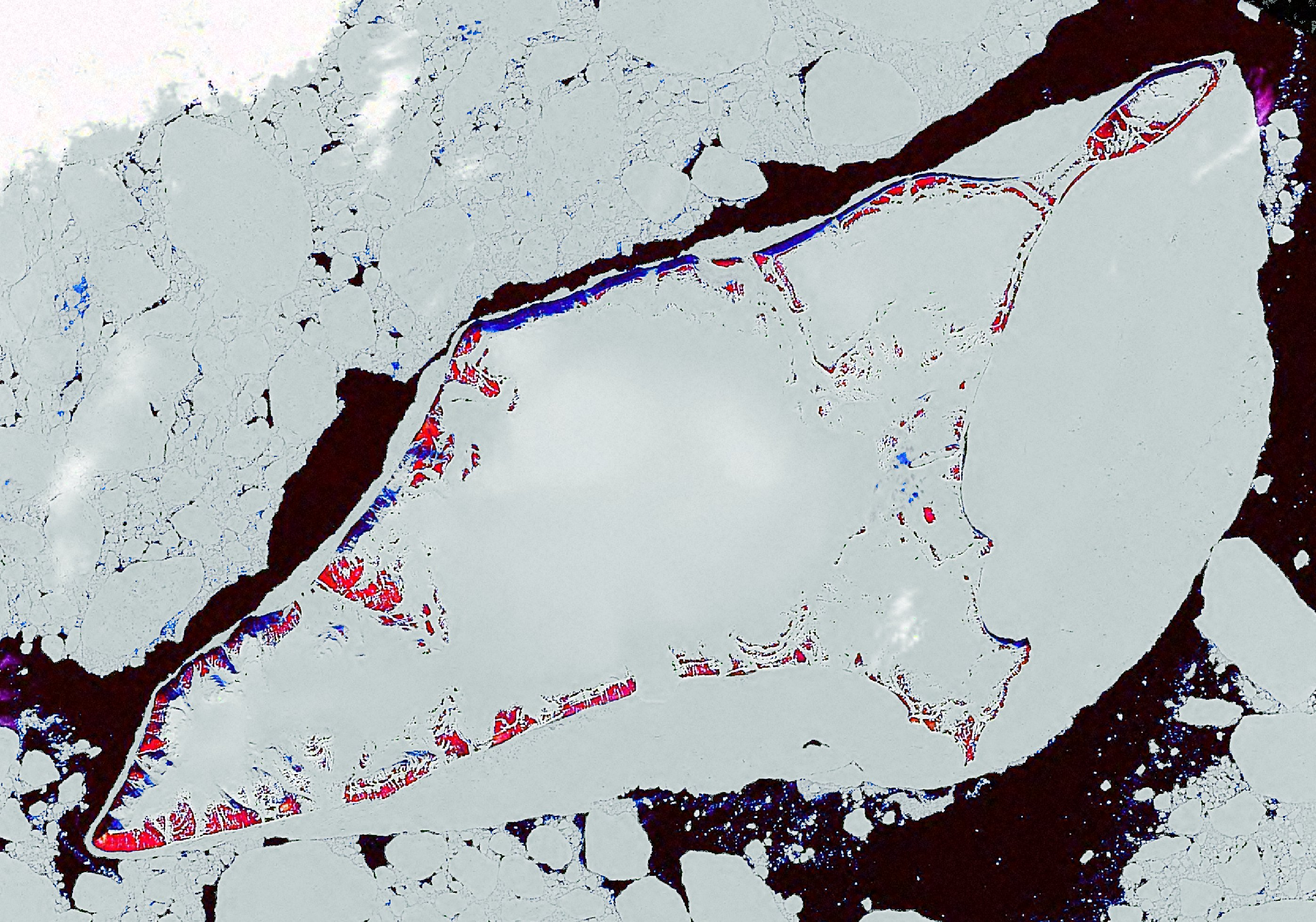 NASA Landsat image of Bennett Island